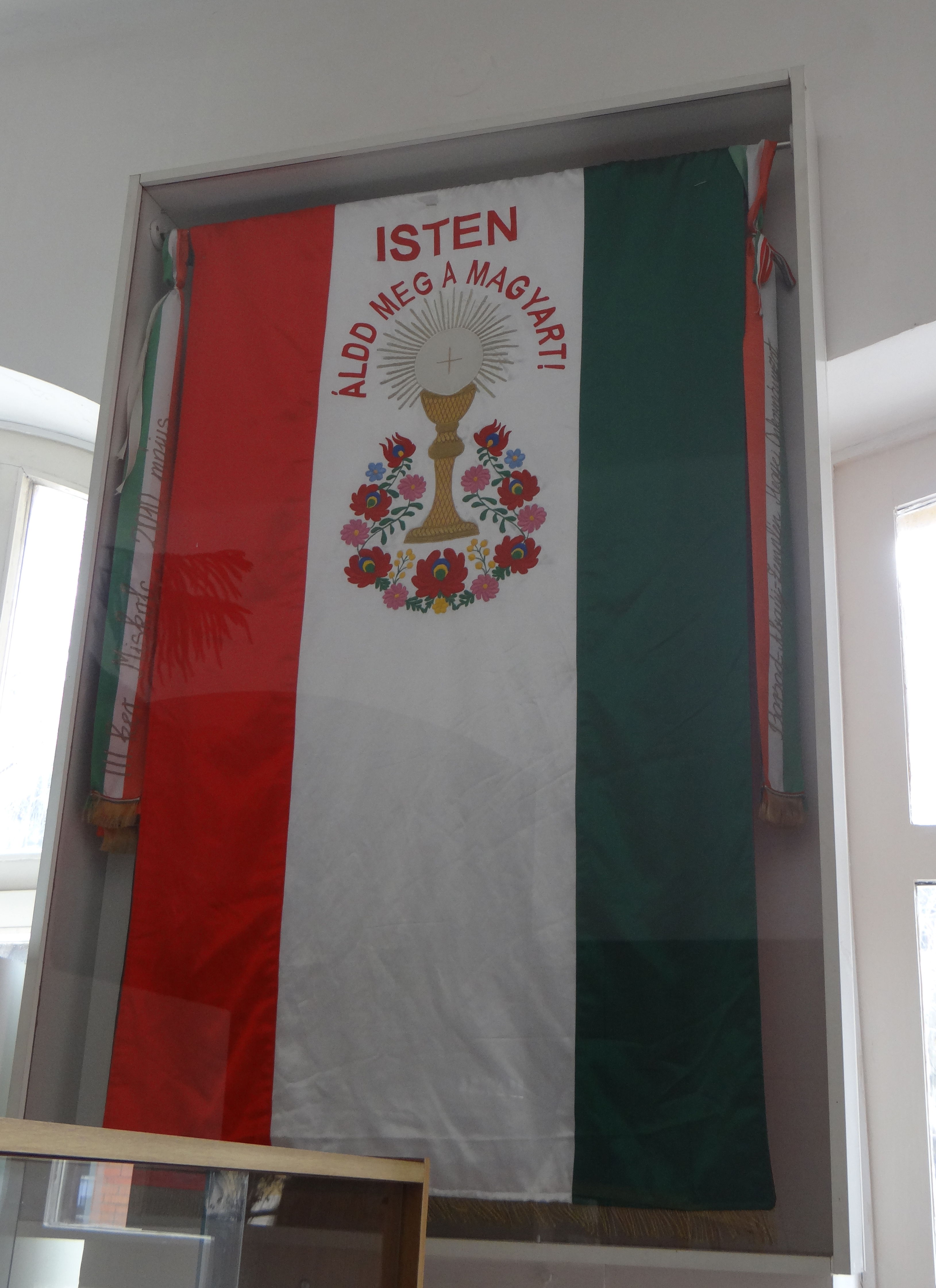 Flag of 10th Honved Regiment Backup, Otto Herman Secondary School, Miskolc, Hungary